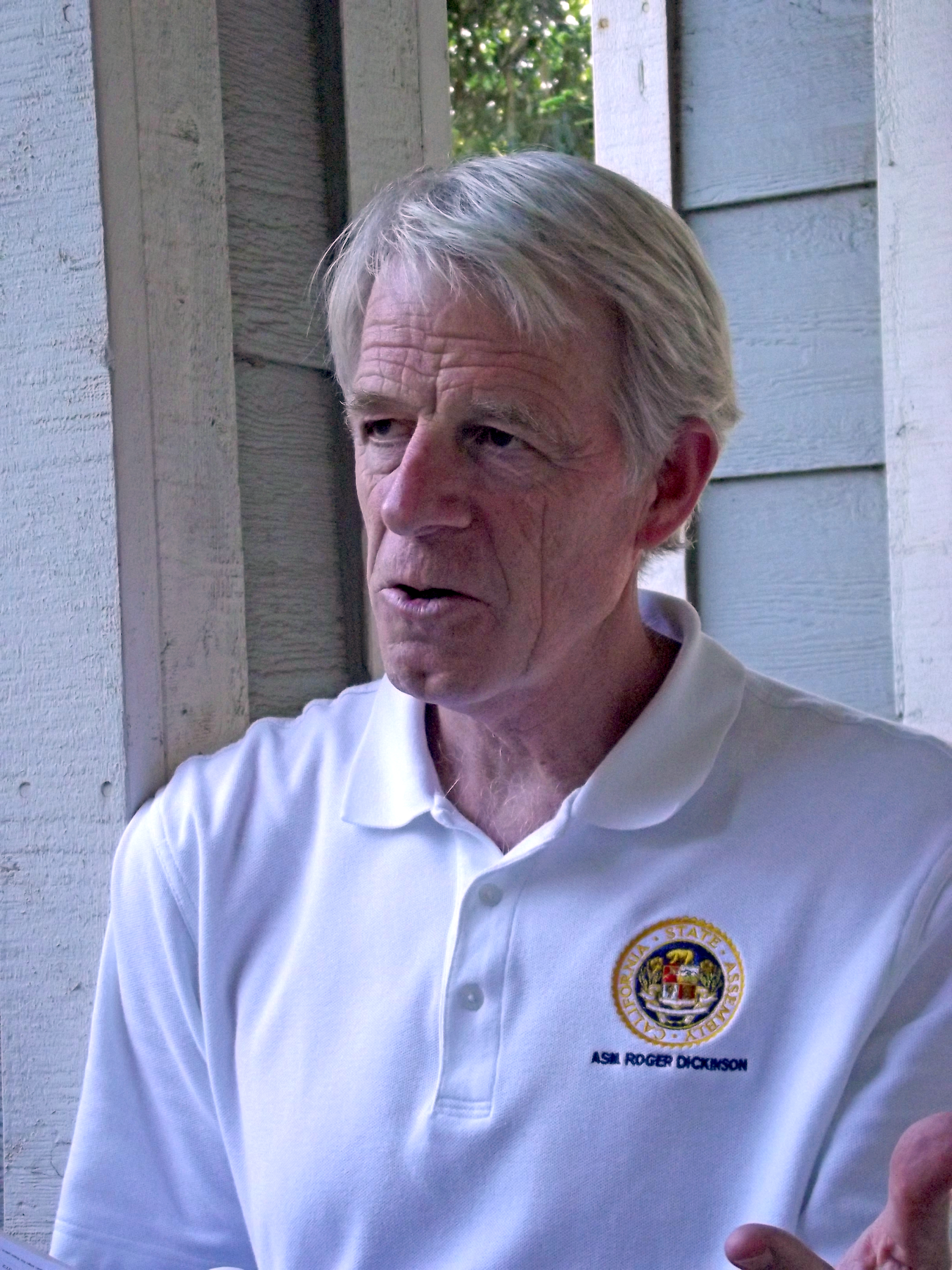 Roger Dickinson in April of 2014 going door to door in the Sacramento area campaigning for the assembly.